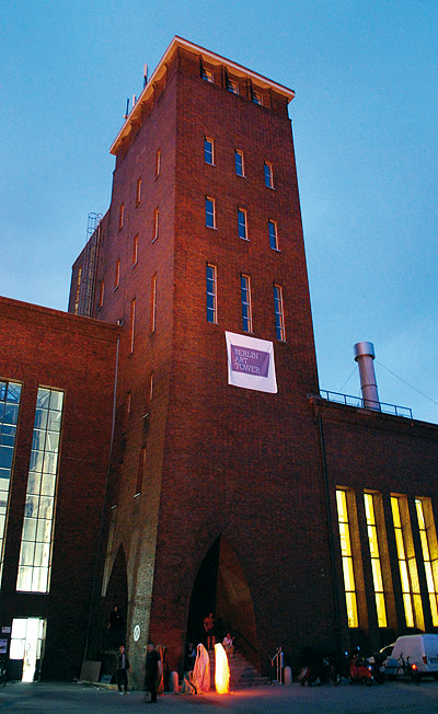 Berlin Neukölln former Kindl-Brewery, now Berlin Arttower exhibition and gallery space, art fair location since 2008. adress = Werbellinstraße 50